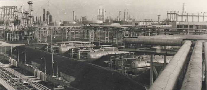 Ploieşti, Romania, chemical combined plant, nowadays known as Lukoil Ploieşti